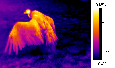 thermographic image of a vulture